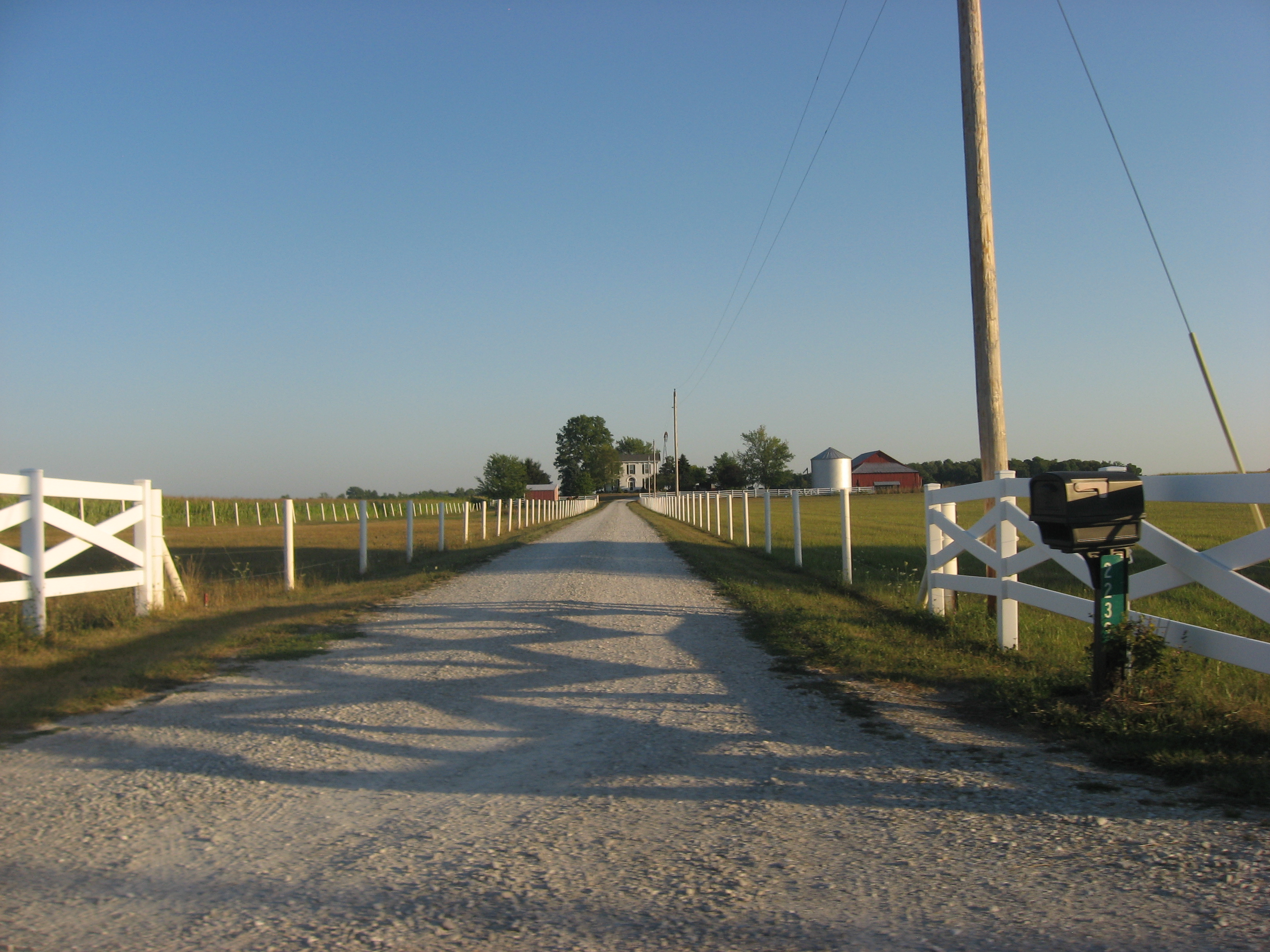 Driveway view of the Jabez Reeves Farmstead, located at 2239 W900N east of Carthage in Center Township, Rush County, Indiana, United States. Built in 1855, the farmhouse is the core of the farmstead, which composes a historic district that is listed on the National Register of Historic Places.